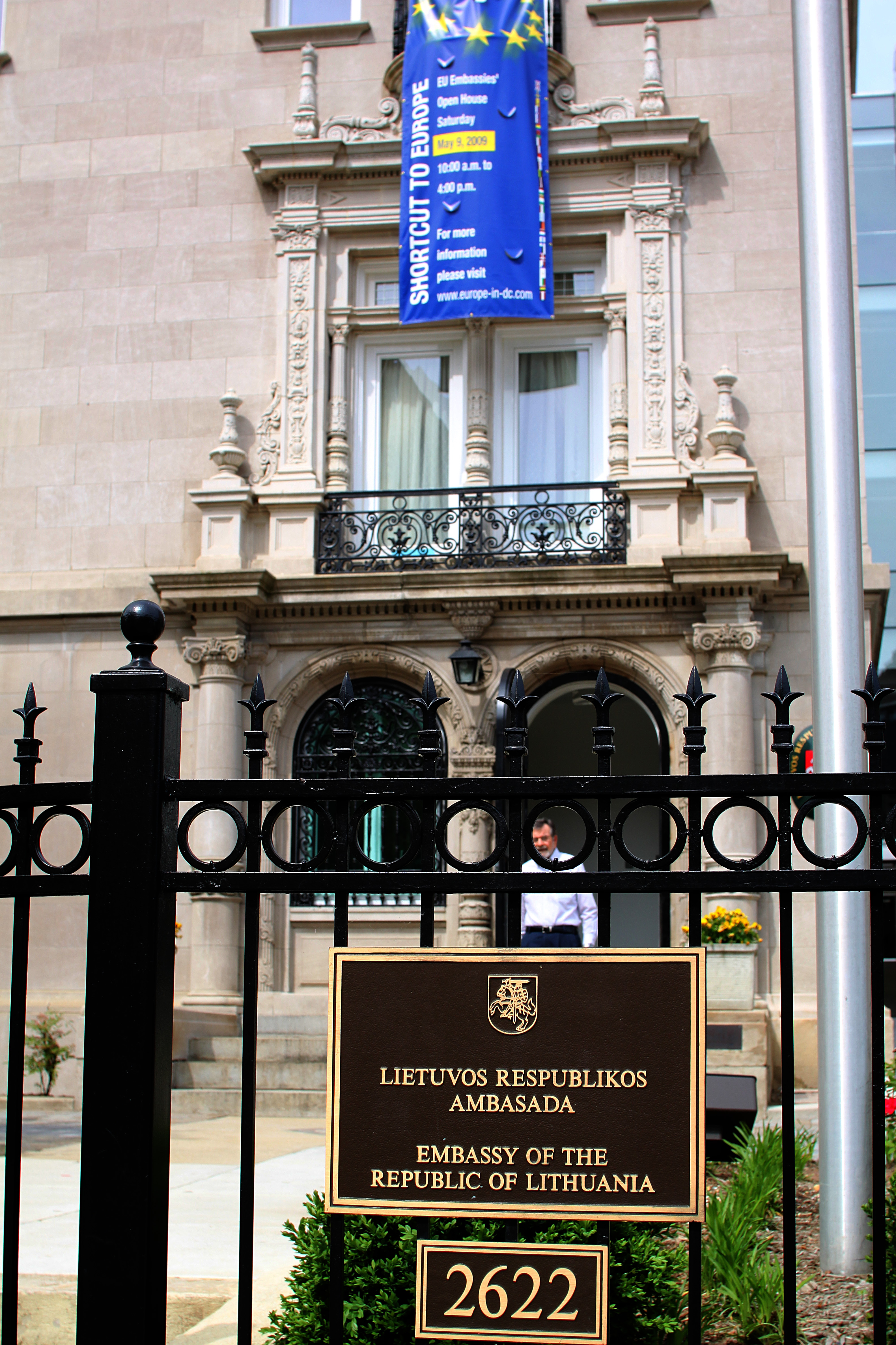 Entrance to the Embassy of Lithuania (1908, George Oakley Totten, Jr.) at 2622 16th Street NW, in Washington, DC. My wife and I visited the facility as part of the annual "Passport to Europe" event; we live about a 15 minute walk away, and there was no line or wait at all. Blogged